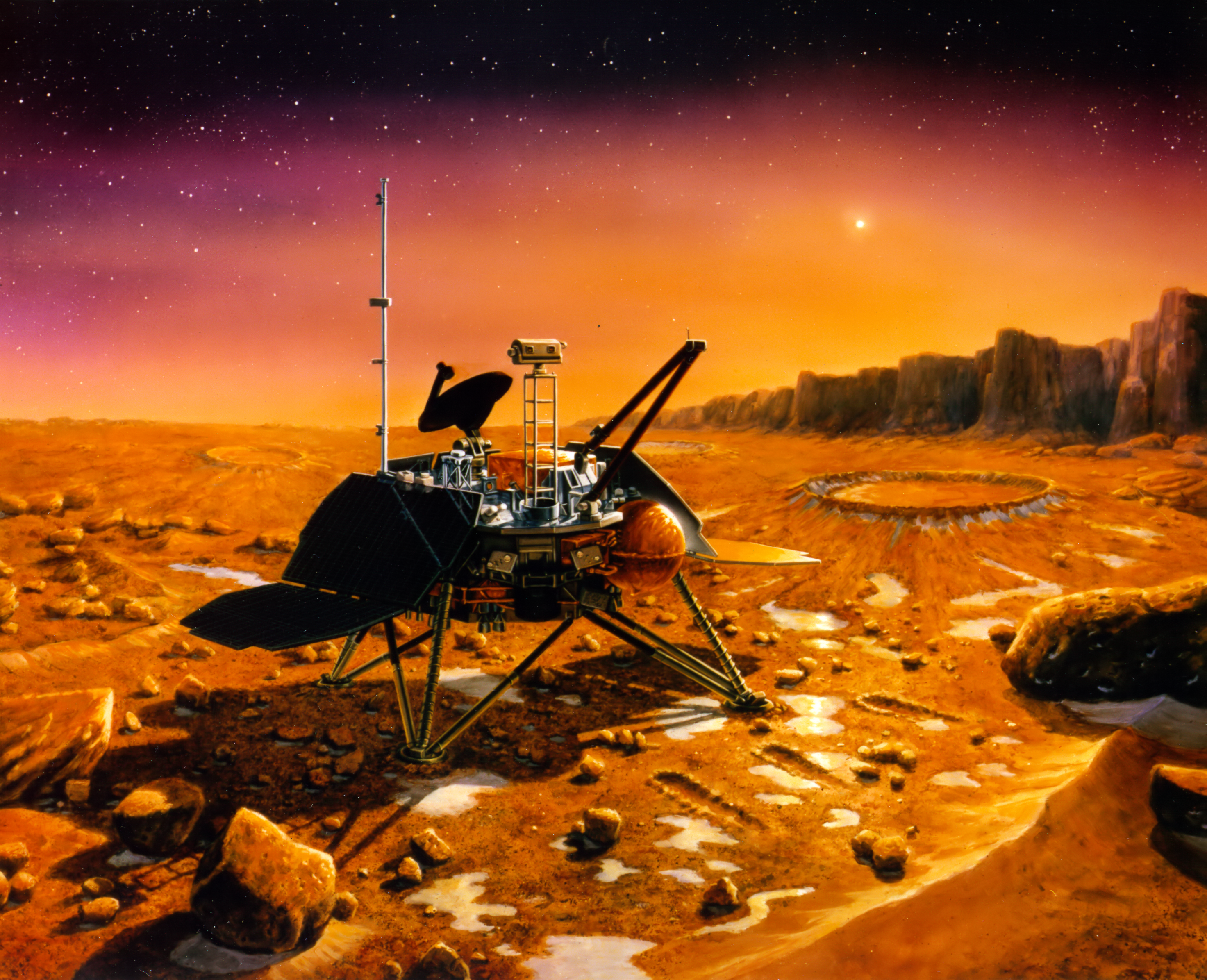 "The Mars Polar Lander is shown on the surface of Mars. The spacecraft will travel 10 months from Earth to Mars to land near the southern polar cap in December 1999 and carry out a three- month mission to search for traces of subsurface water in this frozen, layered terrain. The lander carries three scientific packages: the Mars descent imager, furnished by Malin Space Science Systems, Inc., which will view the landing site at increasingly higher resolution; the atmospheric lidar experiment, provided by Russia's Space Research Institute, which will measure the presence and height of atmospheric hazes, along with a miniature microphone provided by The Planetary Society, to record the sounds of Mars; and the Mars Volatile and Climate Surveyor science package. The mission is part of NASA's Mars Surveyor program, a sustained program of robotic exploration of the red planet, managed by the Jet Propulsion Laboratory for NASA's Office of Space Science, Washington, DC. Lockheed Martin Astronautics is NASA's industrial partner in the mission."[1]